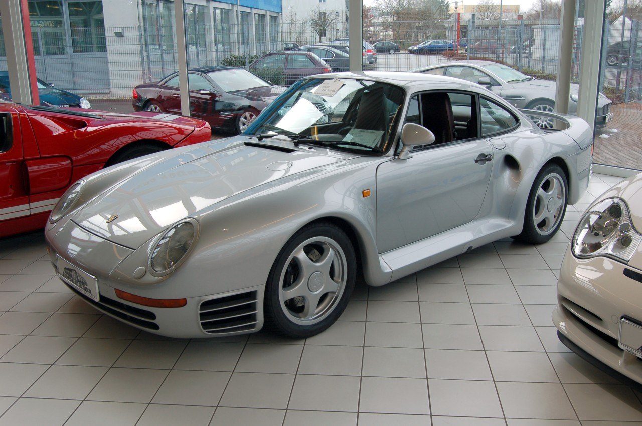 Porsche 959 silver at Auto Salon Singen